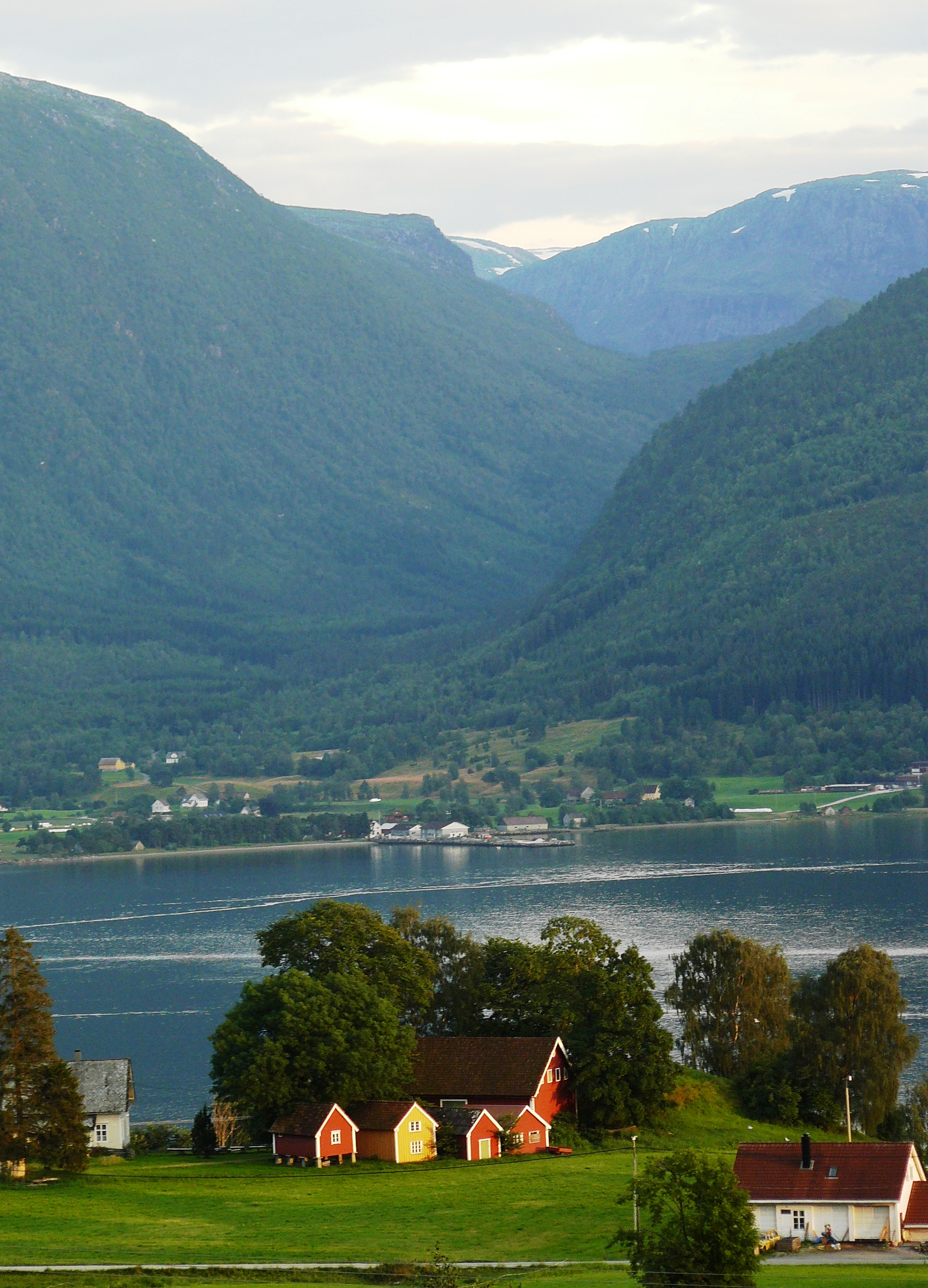 Karnilsfarm & Fitje mountaingap in Gloppen, Norway where solstice occure.jpg